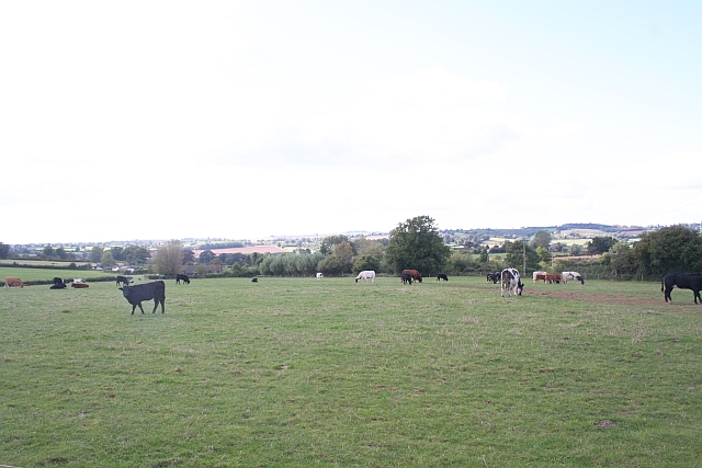 Cow Pasture Between the roads to Pencombe and Bishop's Frome.